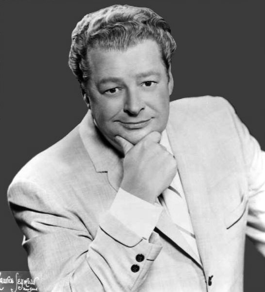 Publicity photo of comedian Frank Fontaine.